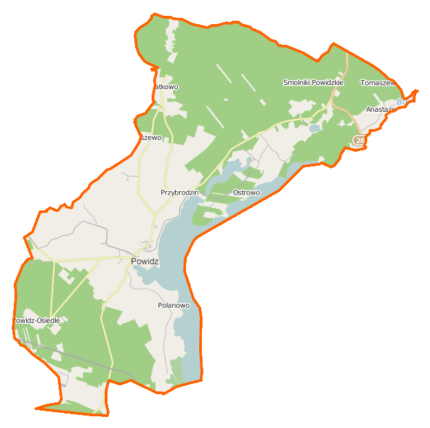 Map of Gmina Powidz, Poland This map of Powidz (gmina) was created from OpenStreetMap project data, collected by the community. This map may be incomplete, and may contain errors. Don't rely solely on it for navigation. Border coordinates52.491417.8439←↕→18.058052.3616